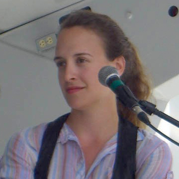 Writer Emily Gould at the 2009 Brooklyn Book Festival.